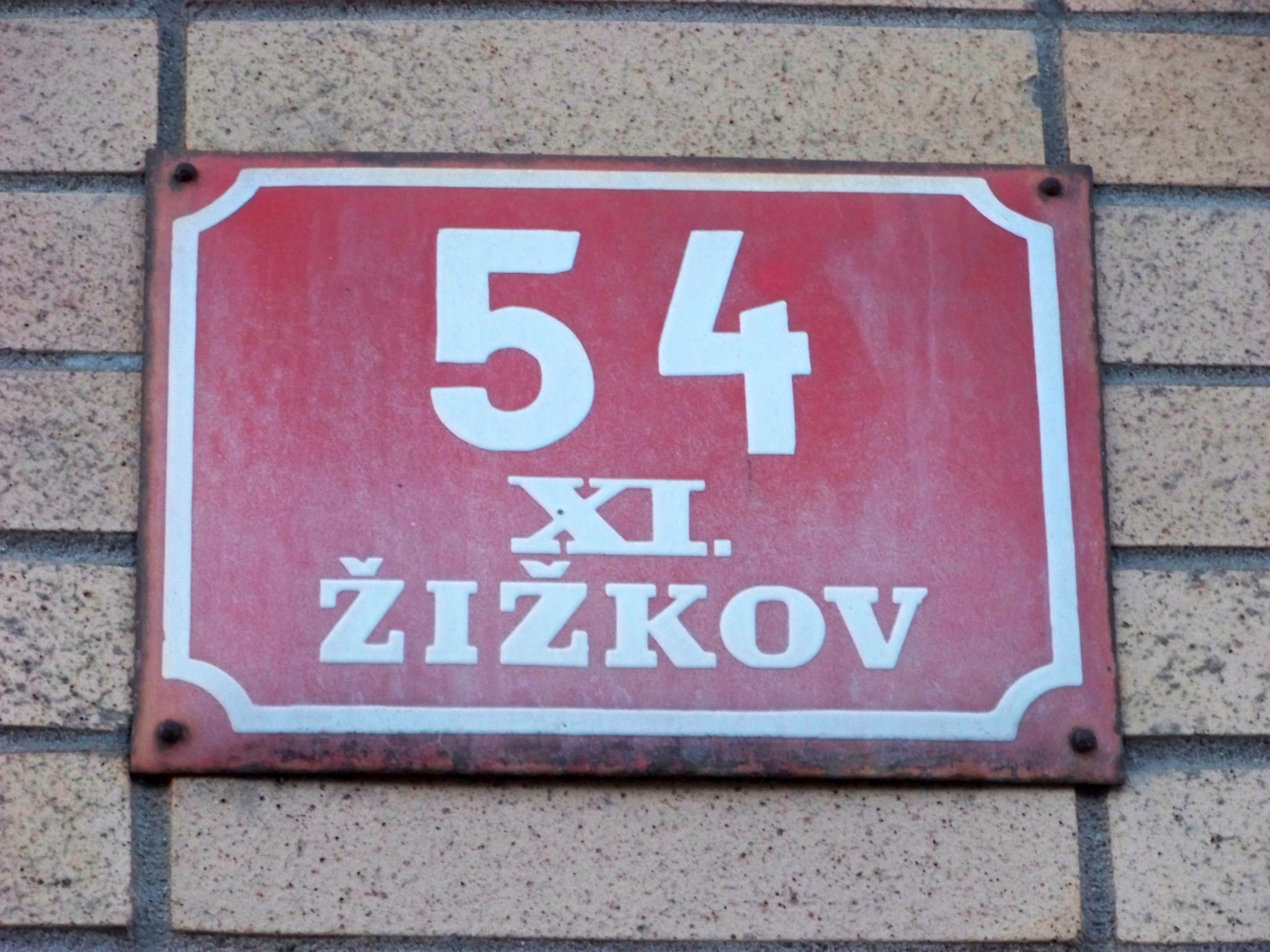 Prague-Žižkov, the Czech Republic. A house number in Olšanská street.